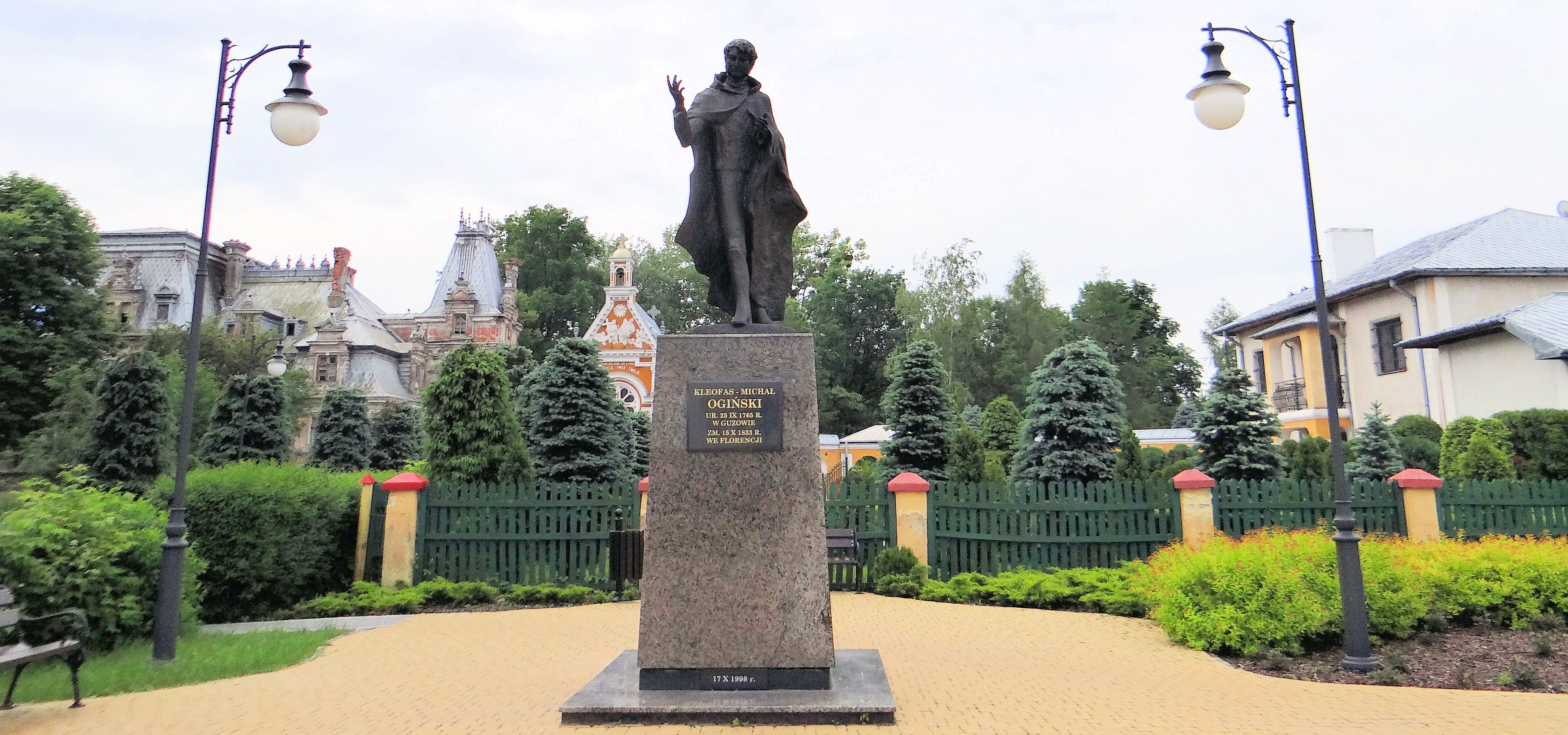 Monument to Michael Cleophas Oginski in Guzów